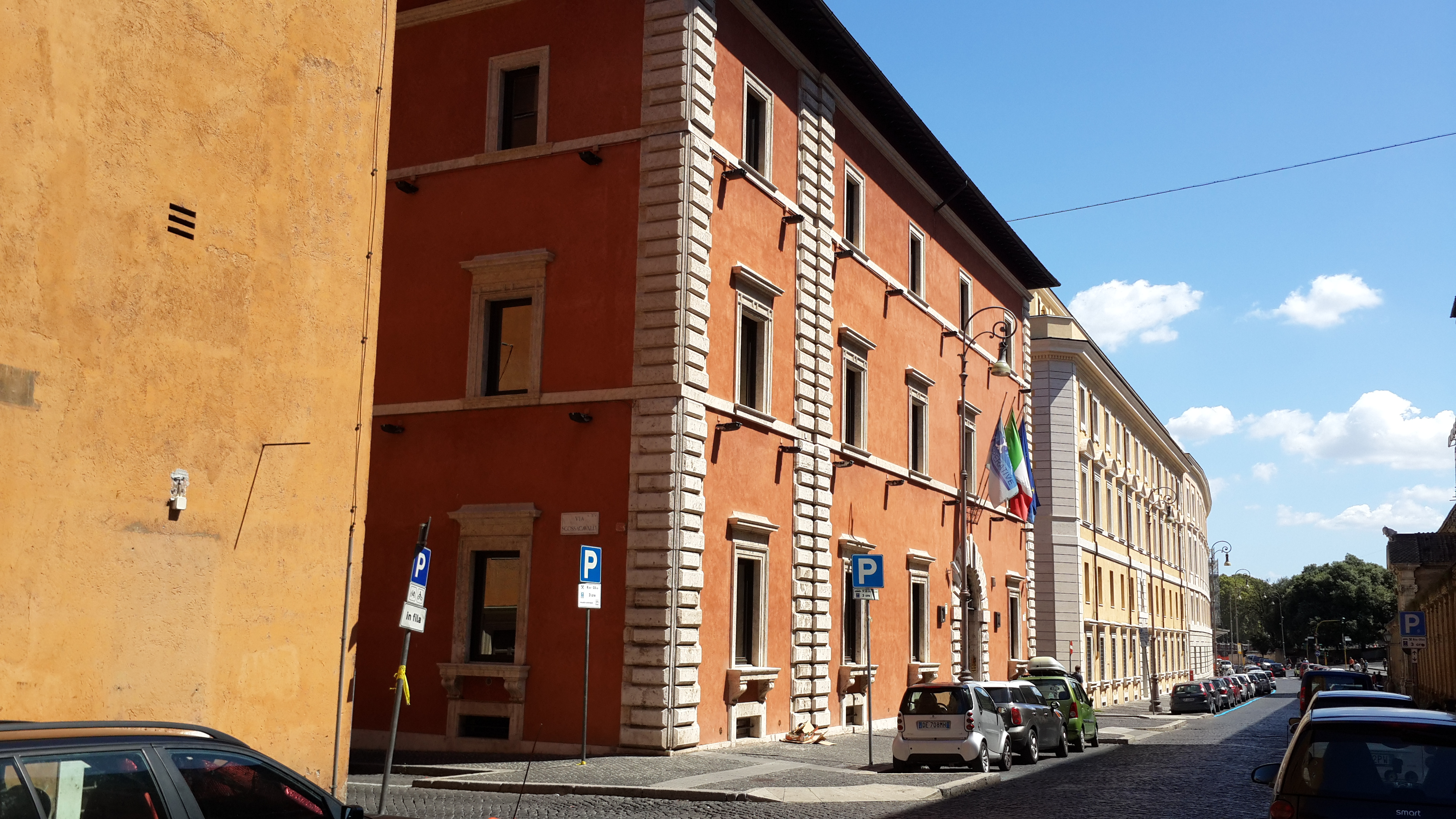 Palazzo Alicorni in Rome from West